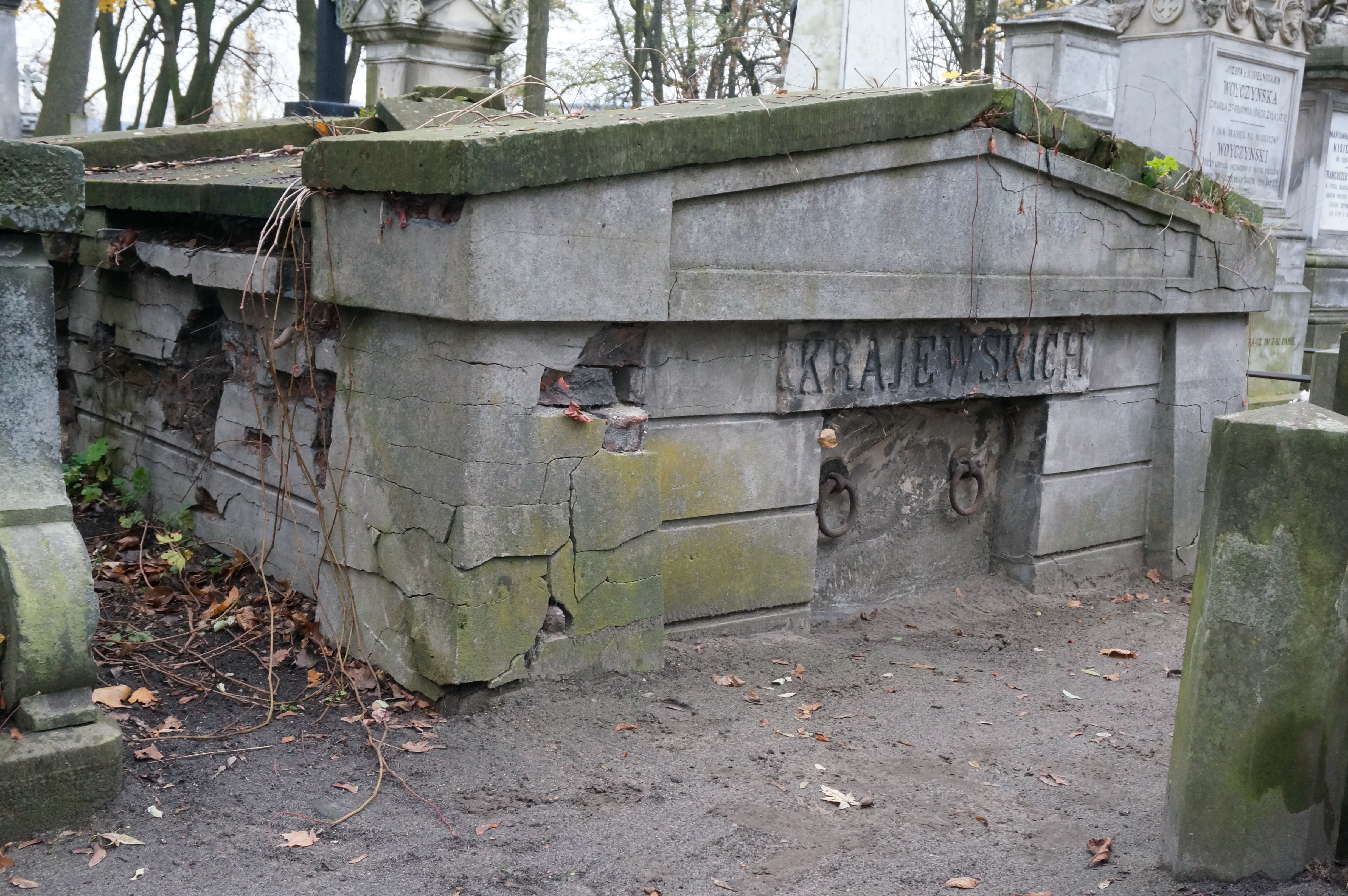 The grave of Aleksander Krajewski at the Powązki Cemetery (section 181, row 2, grave 14-15)